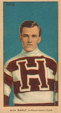 Imperial Tobacco hockey card depiction of Canadian ice hockey player Nick Bawlf of the Haileybury Hockey Club.